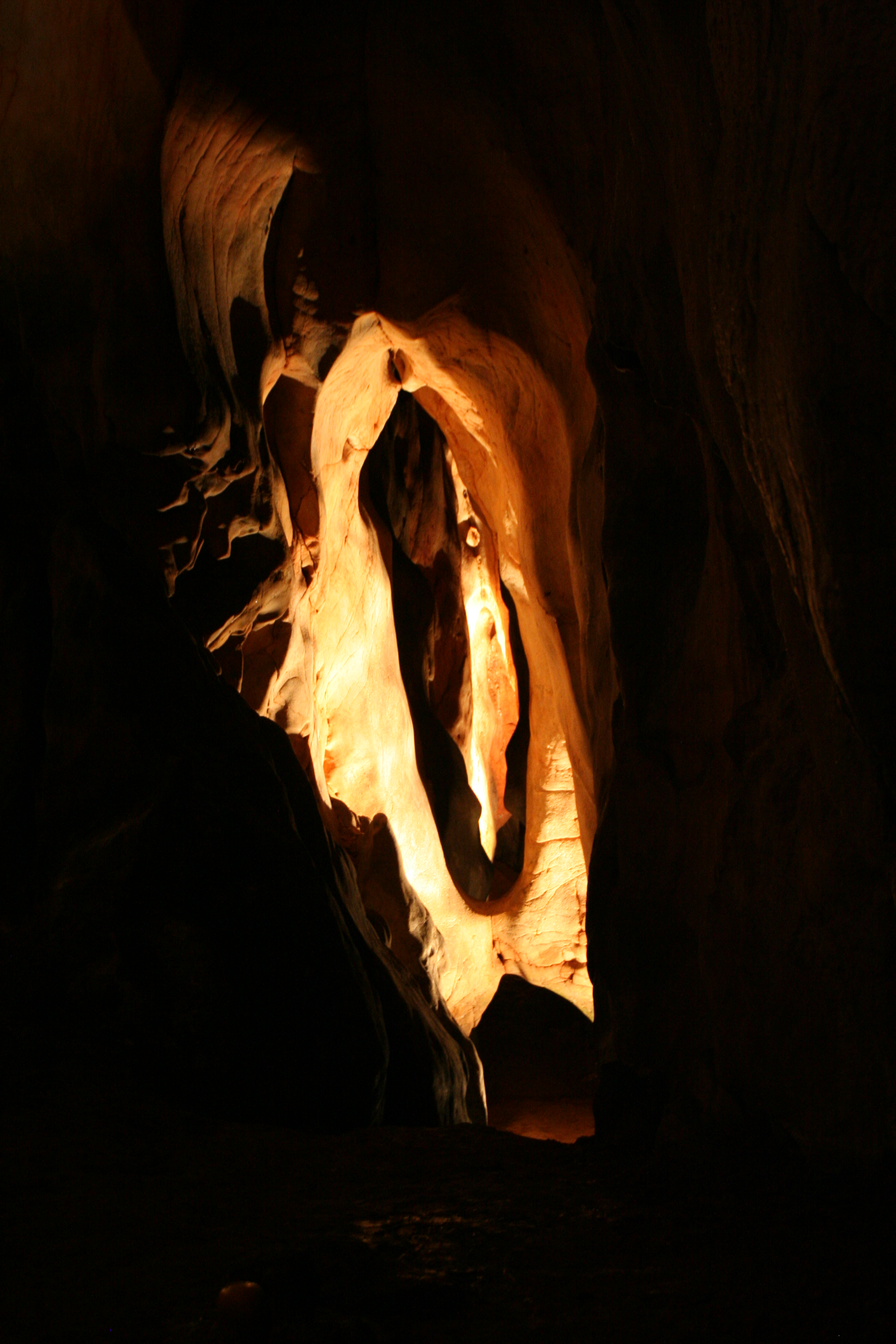 Domica Cave, Slovakia. Taking this photo was made possible through the financial support of Wikimedia Polska.